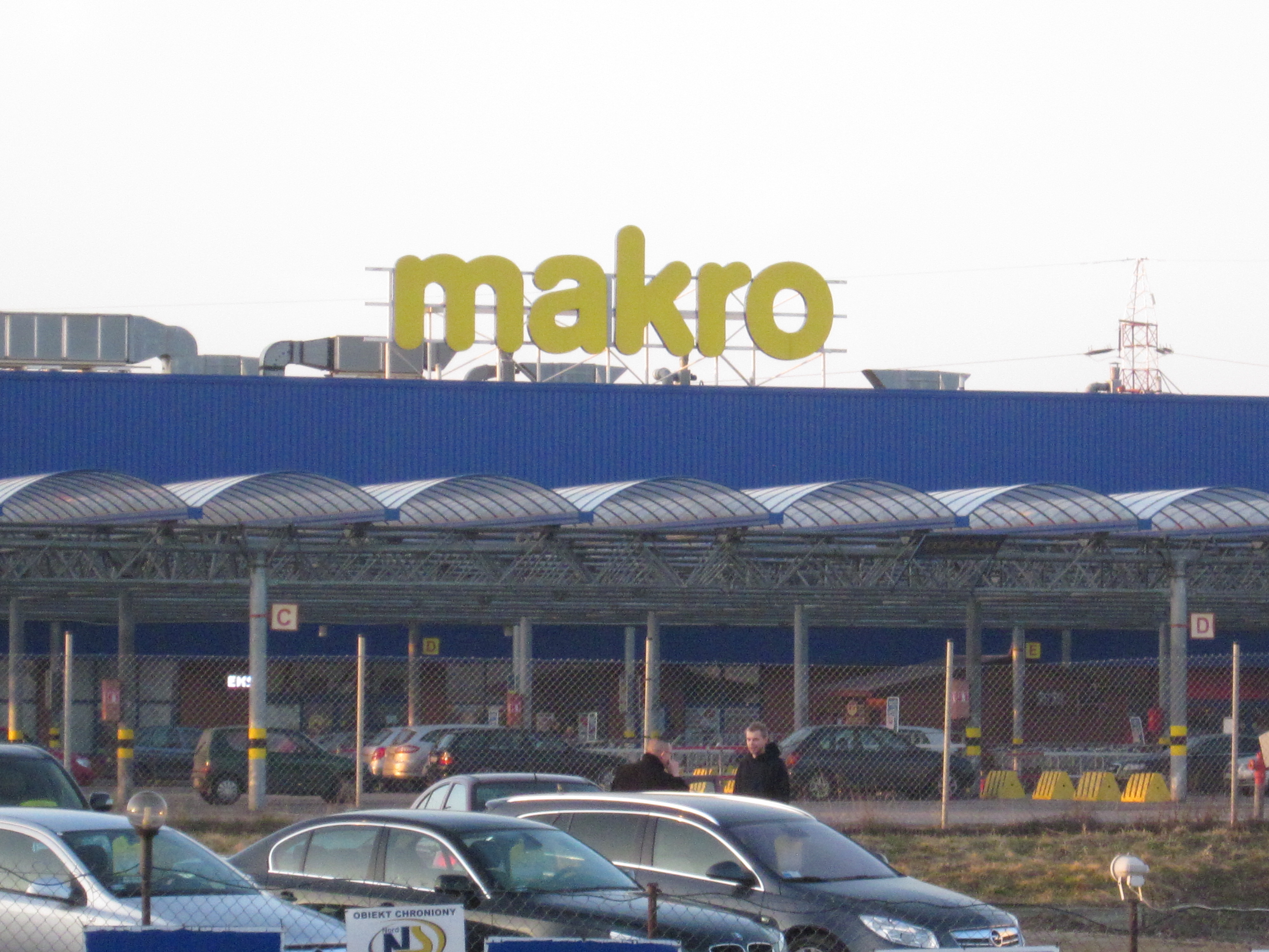 Makro Cash and Carry in Białystok, at 92 Jana Pawła II street